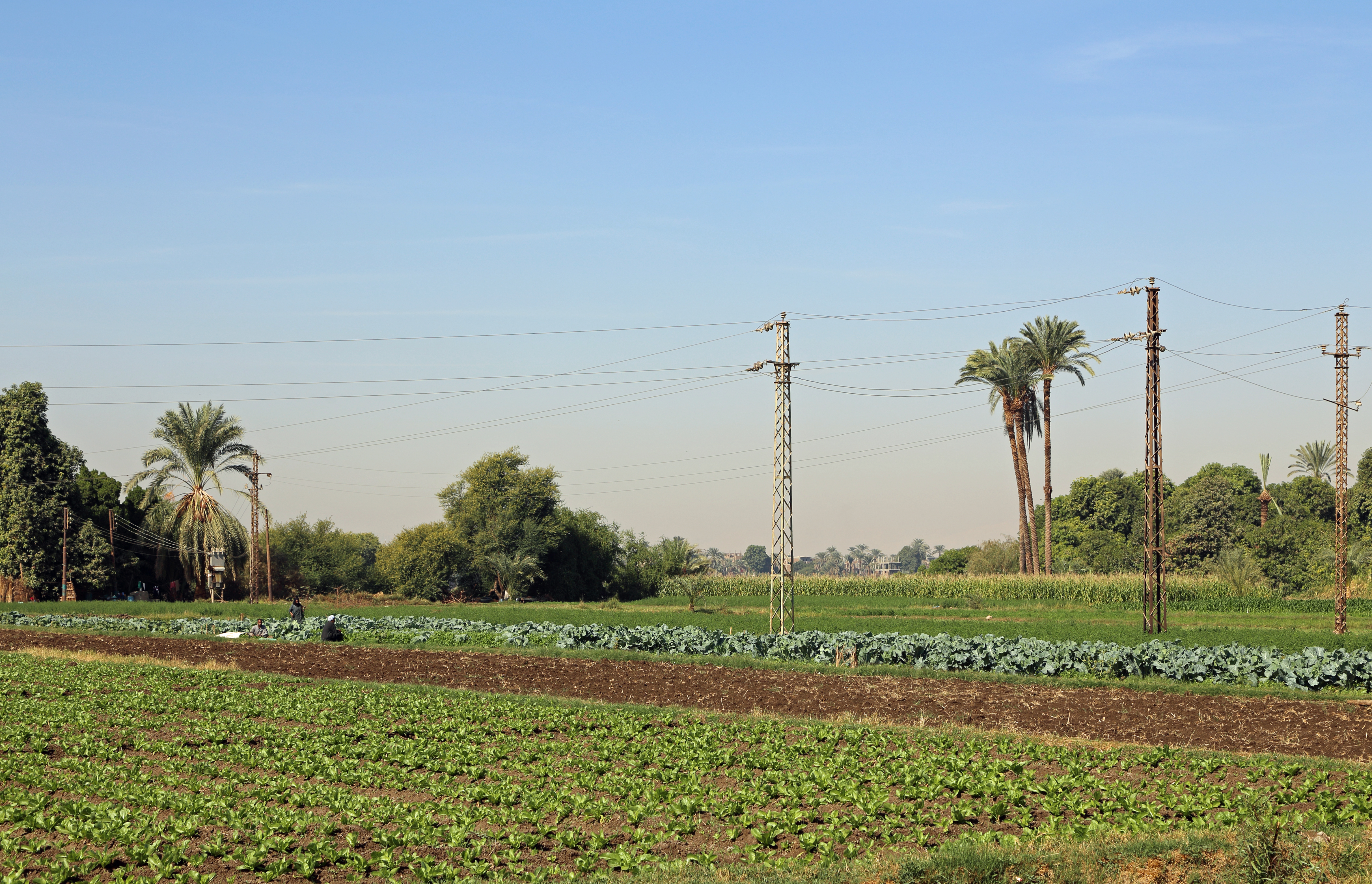 Countryside near Al Bayadiyah (Luxor Governorate, Egypt)